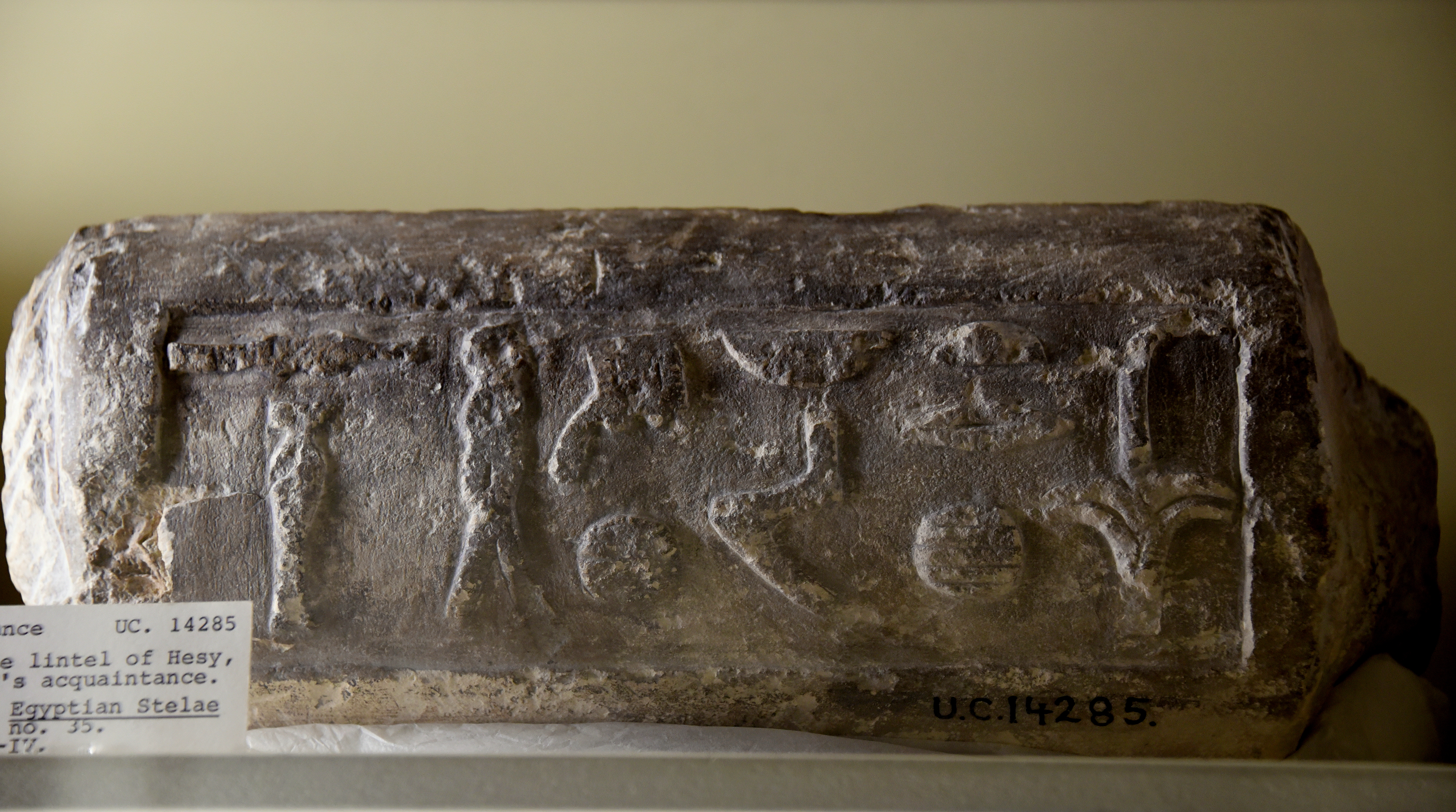 Limestone lintel of Hesy (Hesi, Hesy-Ra, Hesy-Re, Hesire), the King's acquaintance. Old Kingdom, 3rd to 4th Dynasties. From Koptos (Qift, Coptos), Egypt. The Petrie Museum of Egyptian Archaeology, London. With thanks to the Petrie Museum of Egyptian Archaeology, UCL.